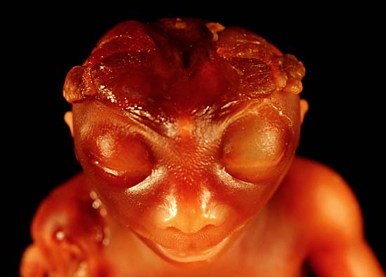 The anterosuperior view of the head of an anencephalic fetus demonstrates the disorganized connective tissue membrane that, in the absence of the calvarium, covers the top of the skull. Shot with a Nikon FE2 on Kodak Elite daylight film, ISO 100, with a blue filter to correct for tungsten illumination.